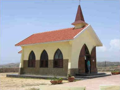 The front and right side of the Alto Vista Chapel.